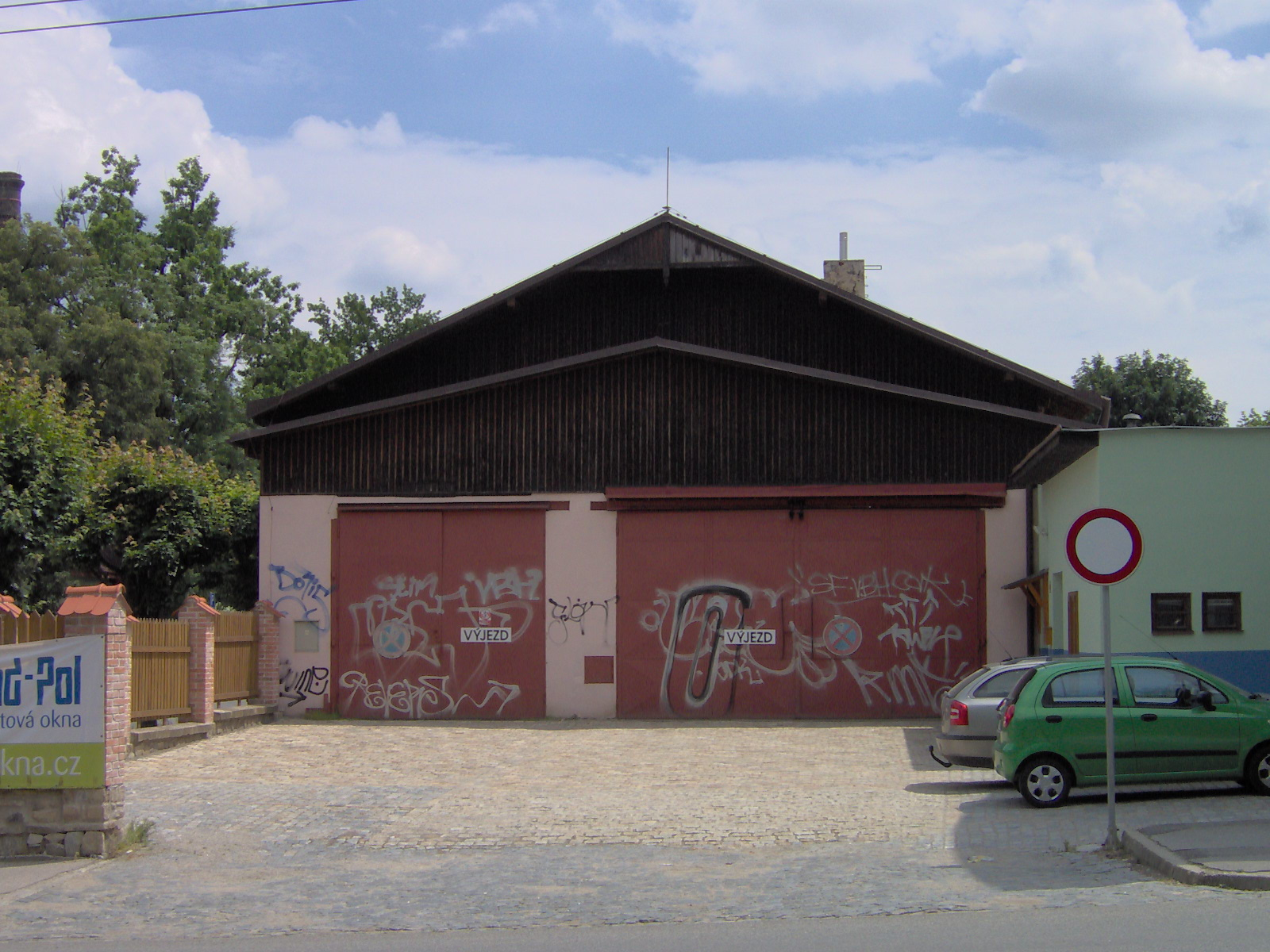 Ex-tram a later trolleybus depot in Jihlava